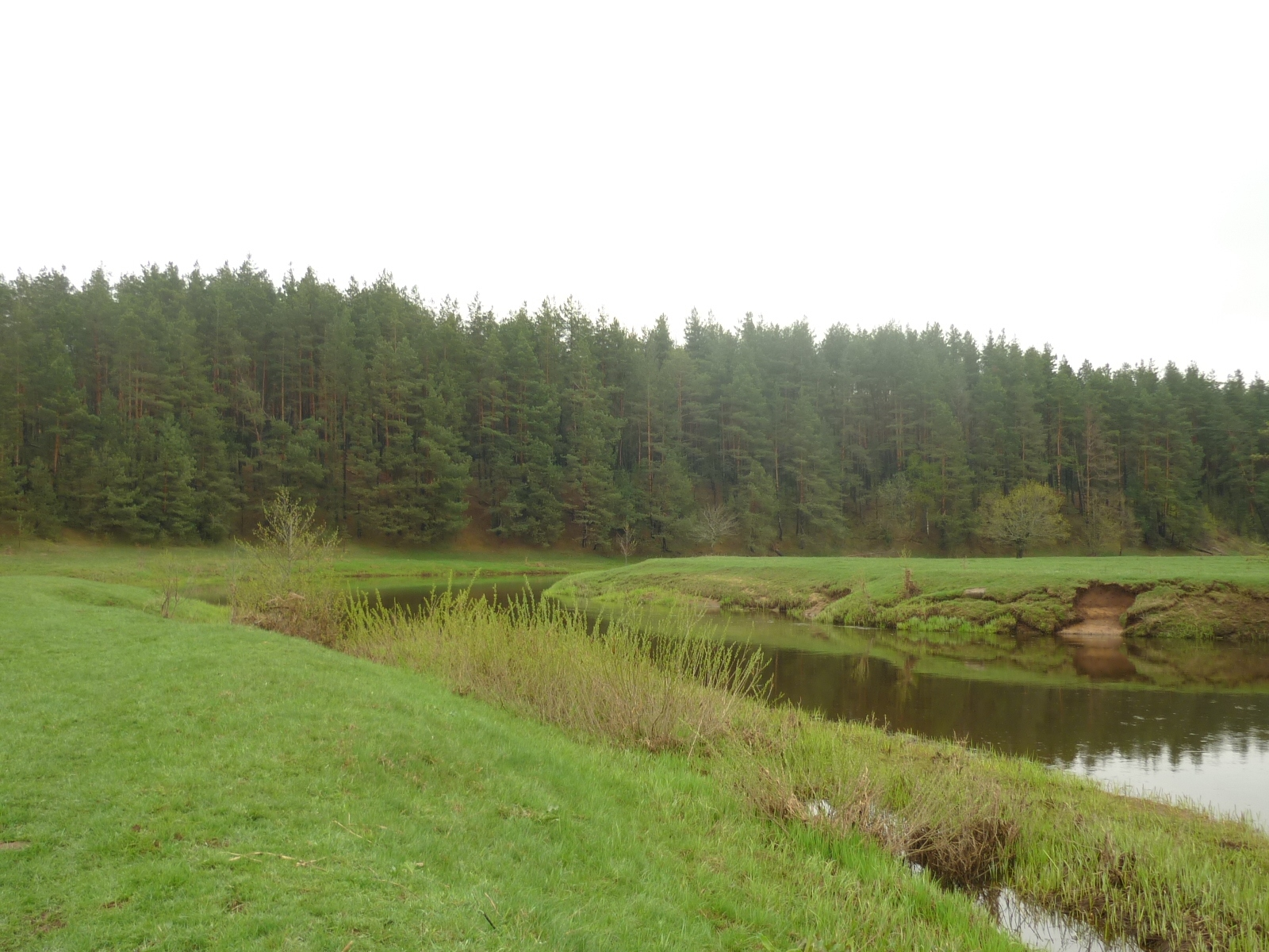 be:Рака Проня River Pronia in Slavgorod district, Mogilev region